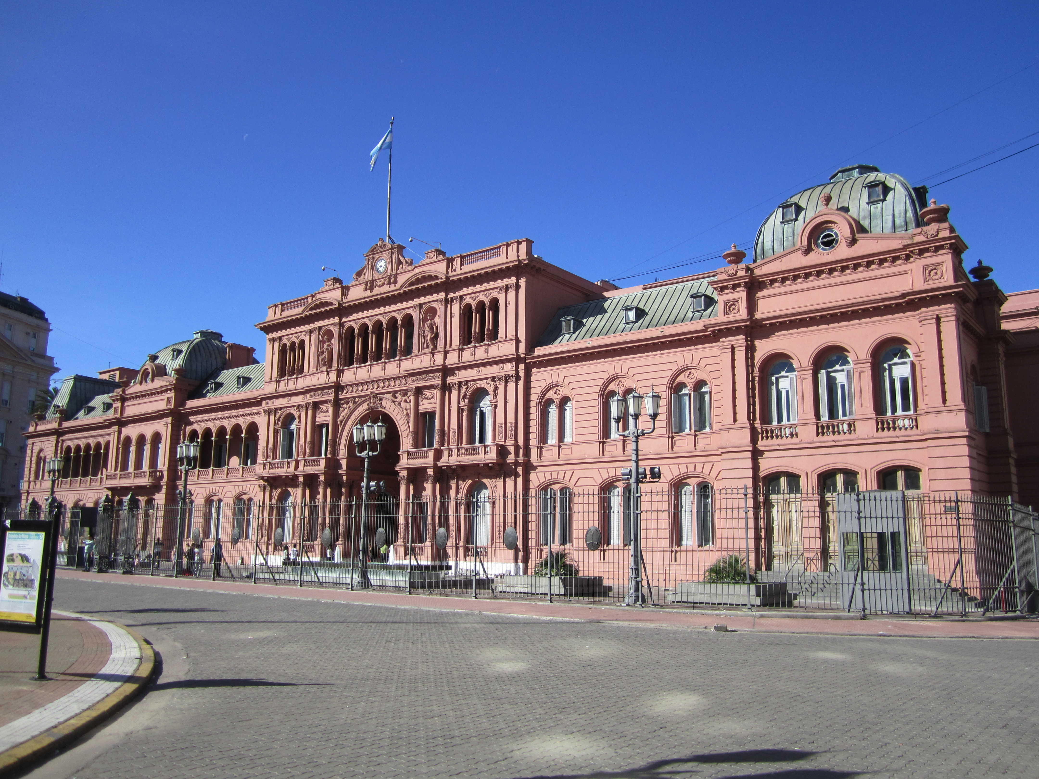 Casa Rosada, President Palace in Buenos Aires